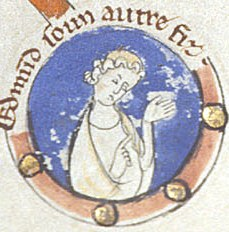 Edmund (b. 1016/7), eldest son of Edmund Ironside